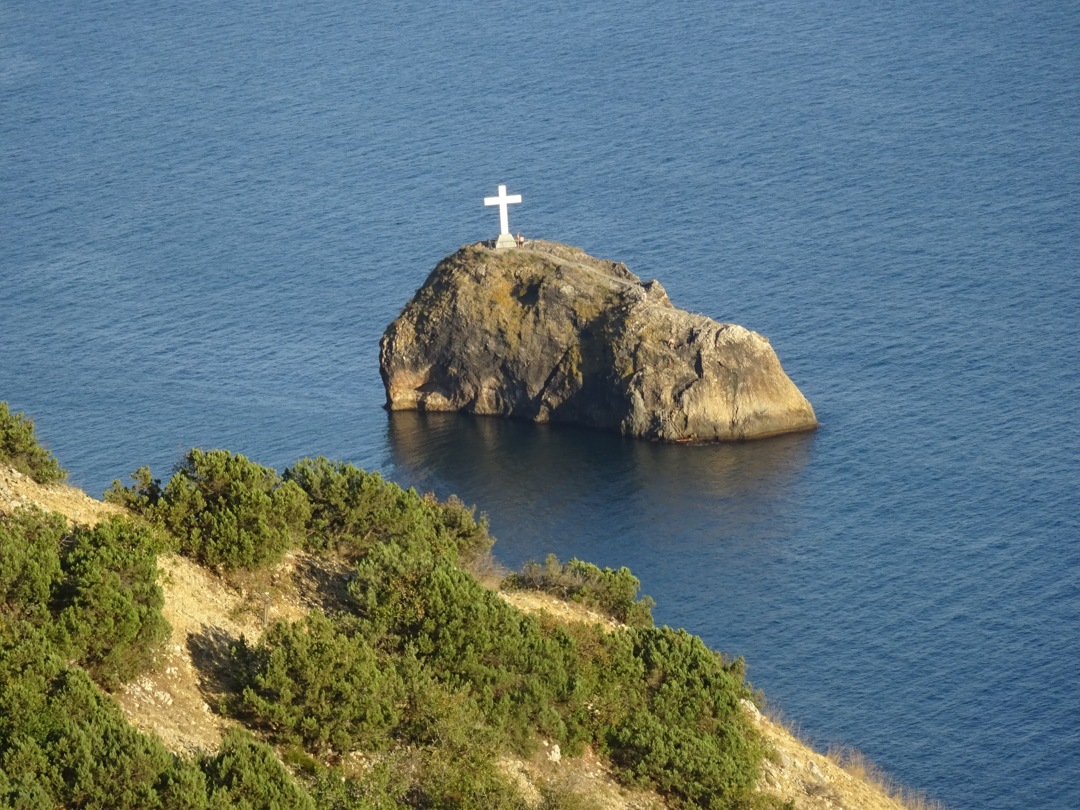 St Appearance Rock seen from cape Fiolent